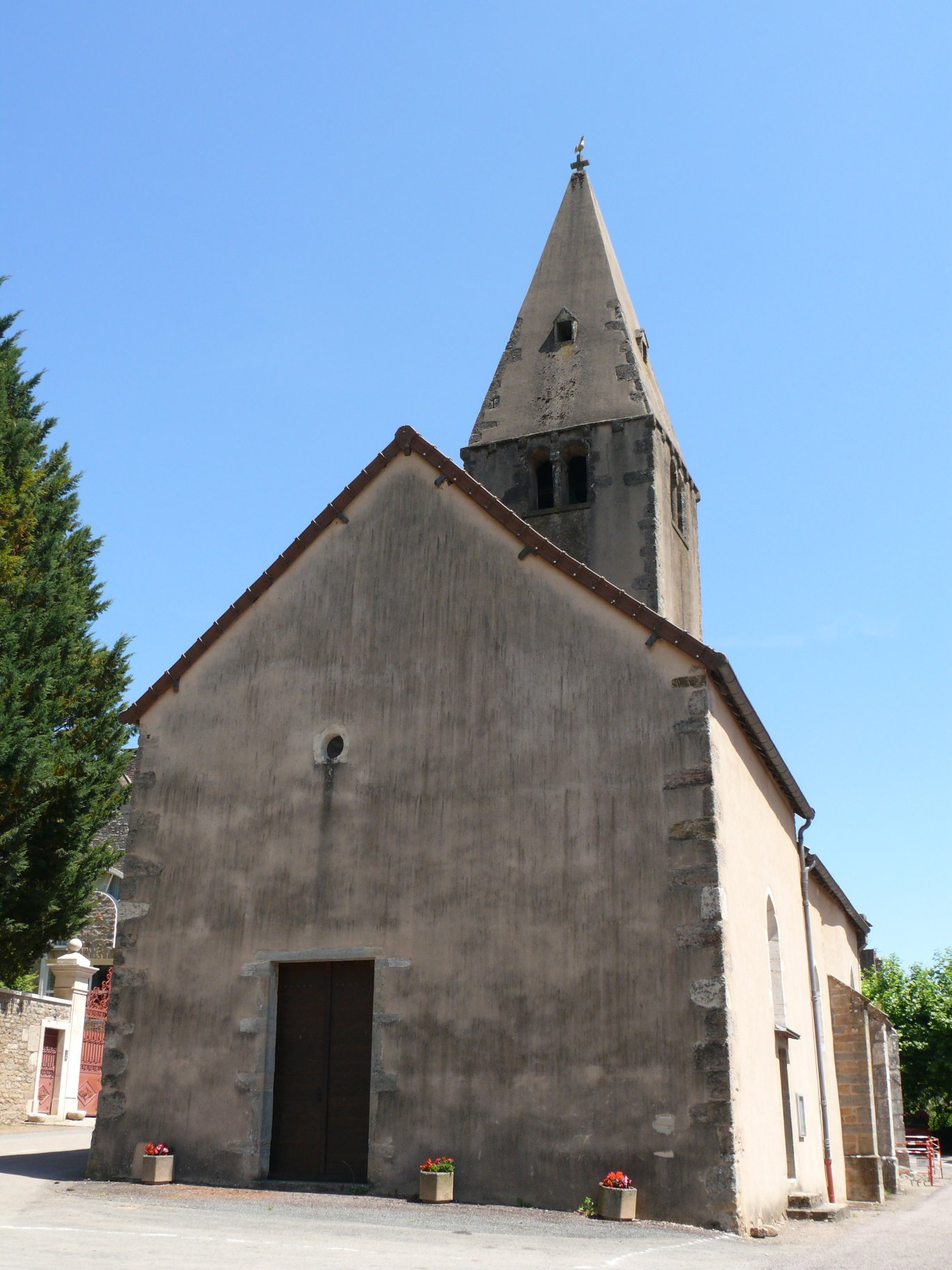 Saint-John-the-Baptist's church of Bissey-sous-Cruchaud (Saône-et-Loire, Bourgogne, France).